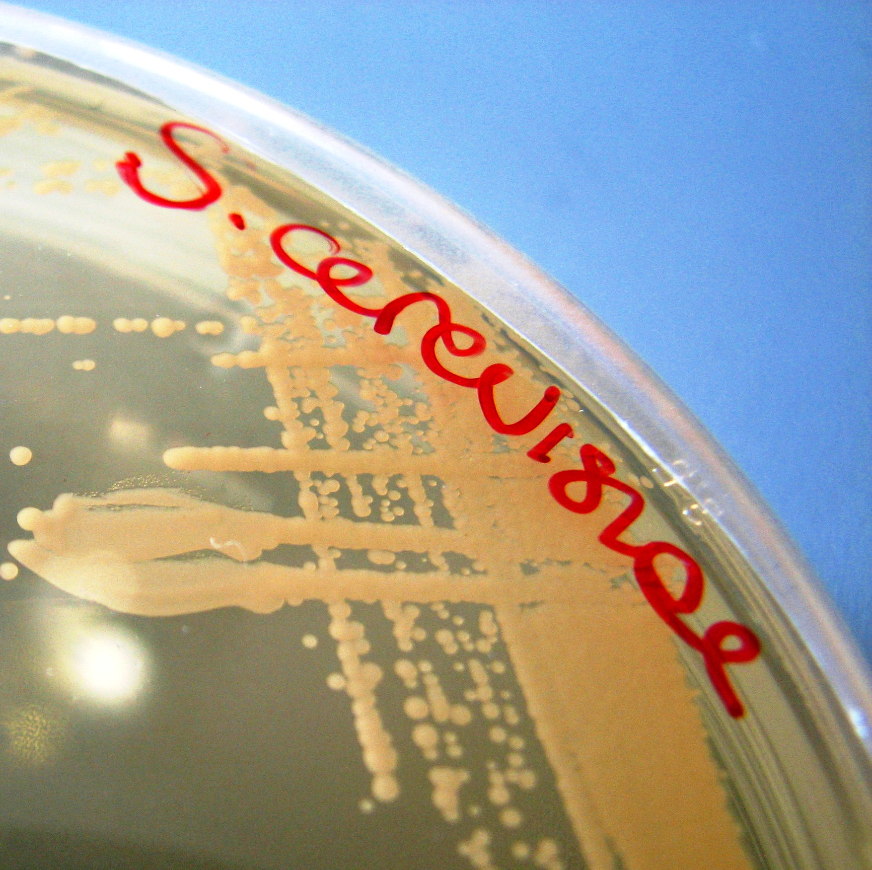 Micro plate of Saccharomyces cerevisiae used in winemaking